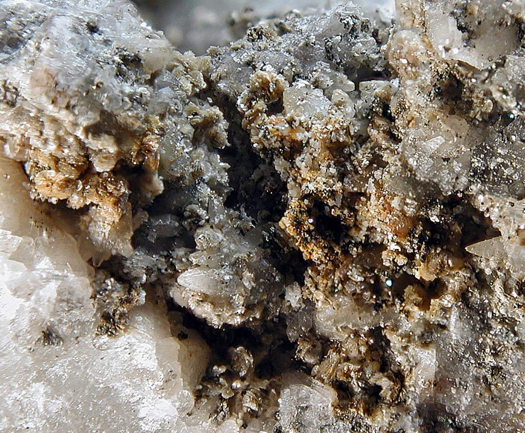 Bastnäsite-(La) Locality: Jones Mill Quarry (Martin Marietta Quarry; Highway 51 Quarry; Mid-State Quarry), Magnet Cove, Hot Spring County, Arkansas, USA Original description: Tan rosettes of micaceous flakes of Bastnasite-(La) in calcite vug, field of view 3 mm, Collected by J. Matlock. ID confirmed by SEM-EDS & XRD (Art Smith, unpublished manuscript). K. Nash specimen & image.